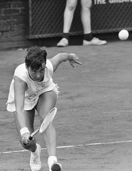 Australian tennis player Kerry Melville at the 1969 Dutch Open in Hilversum.